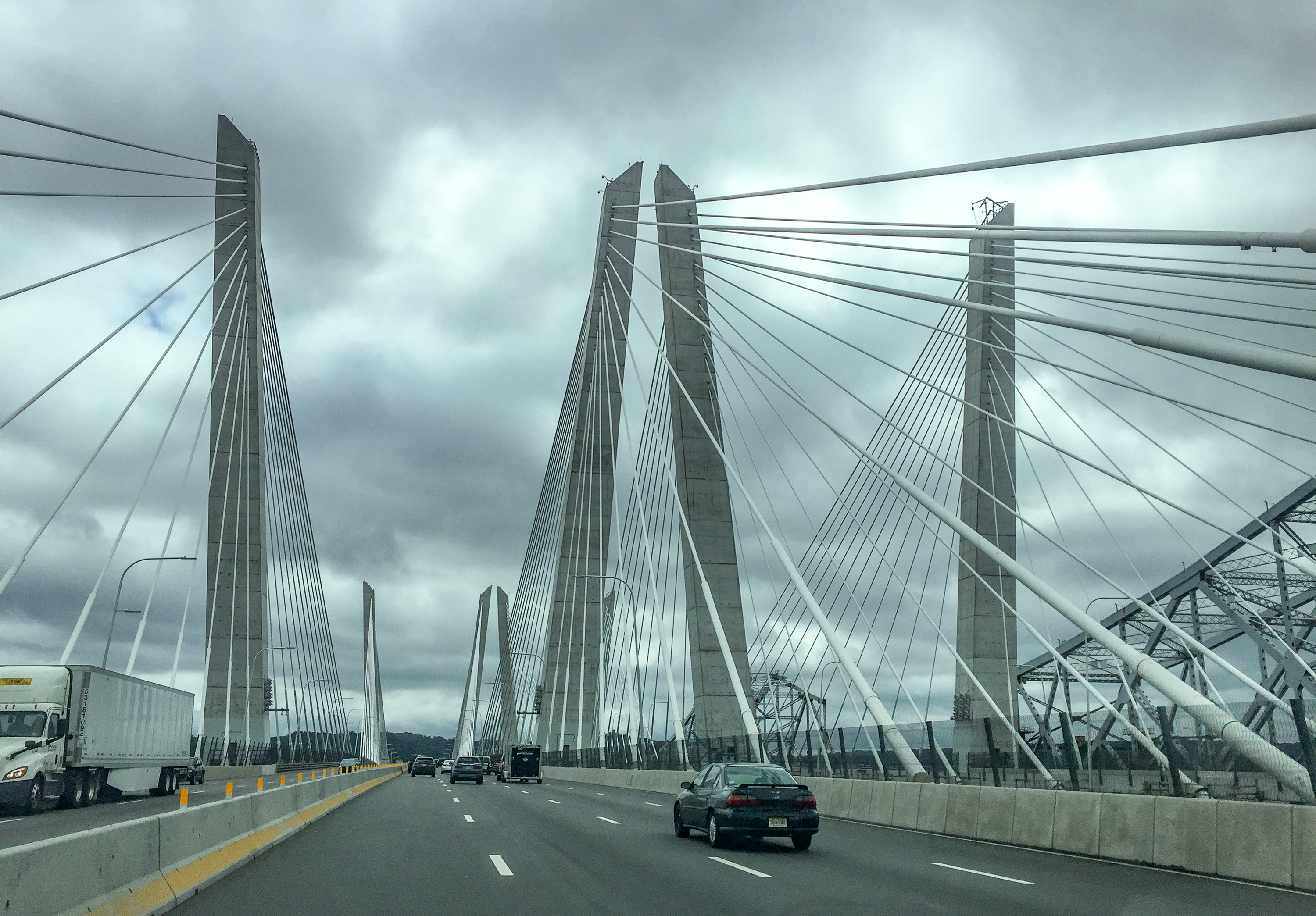 Crossing the newly built Tappan Zee Bridge in 2018